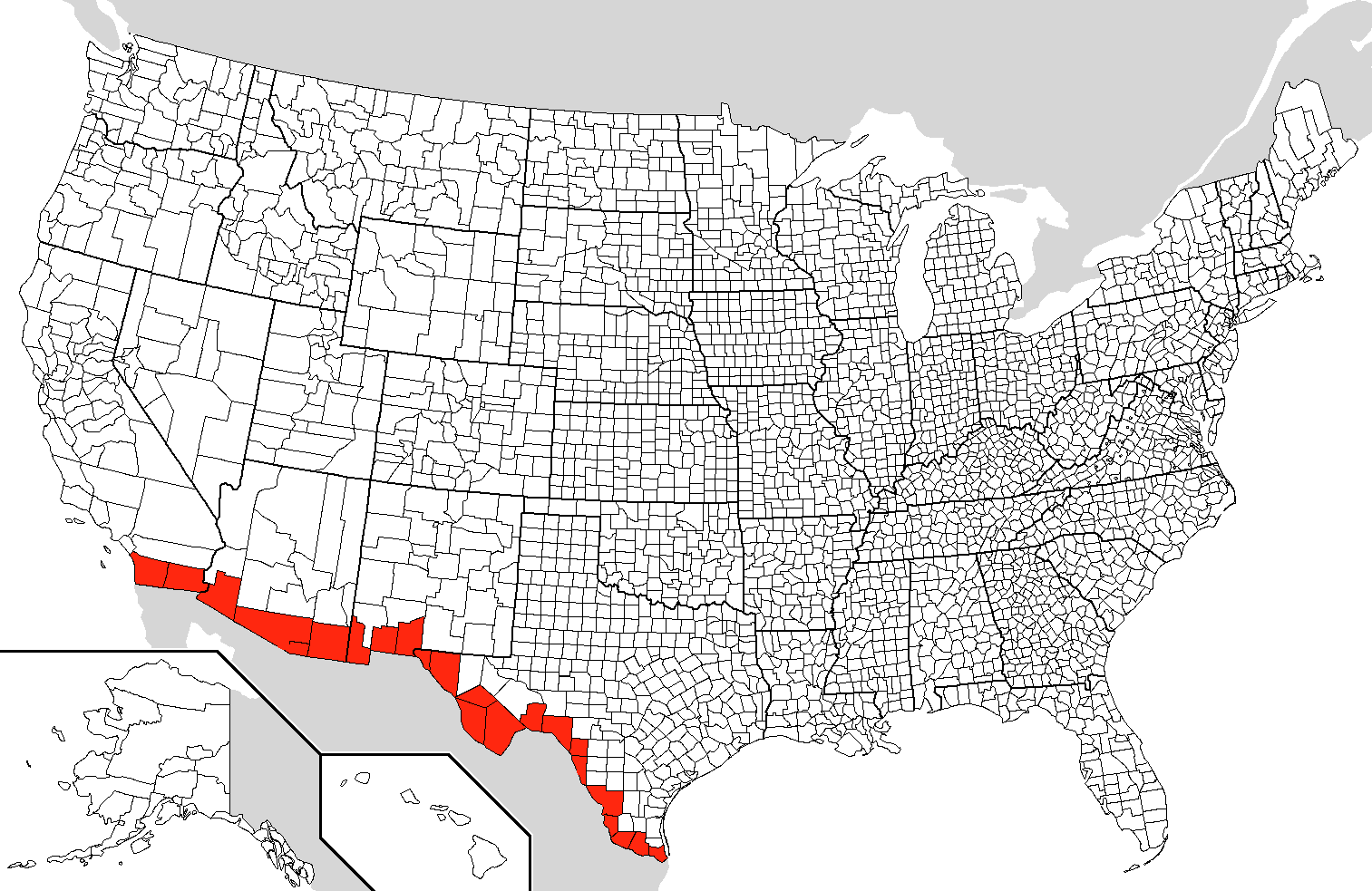 Counties along the Mexico-United States border